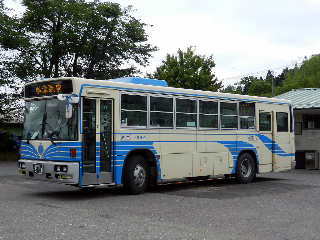 Miyako bus Nissan Diesel UA (KC-UA460HSN,from Akashi city)